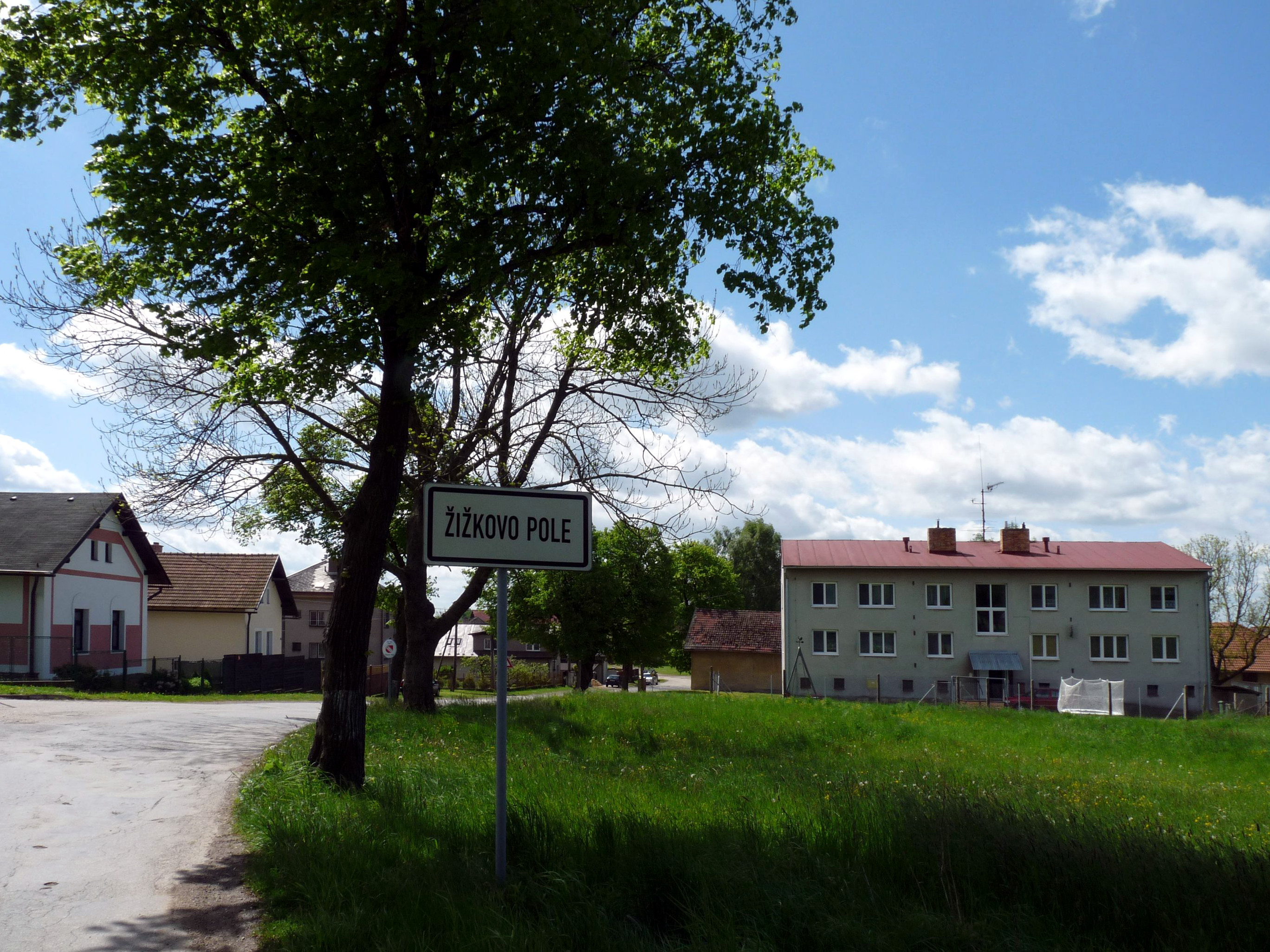 Municipal border sign of in the village of Žižkovo Pole, Havlíčkův Brod District, Vysočina Region, Czech Republic.